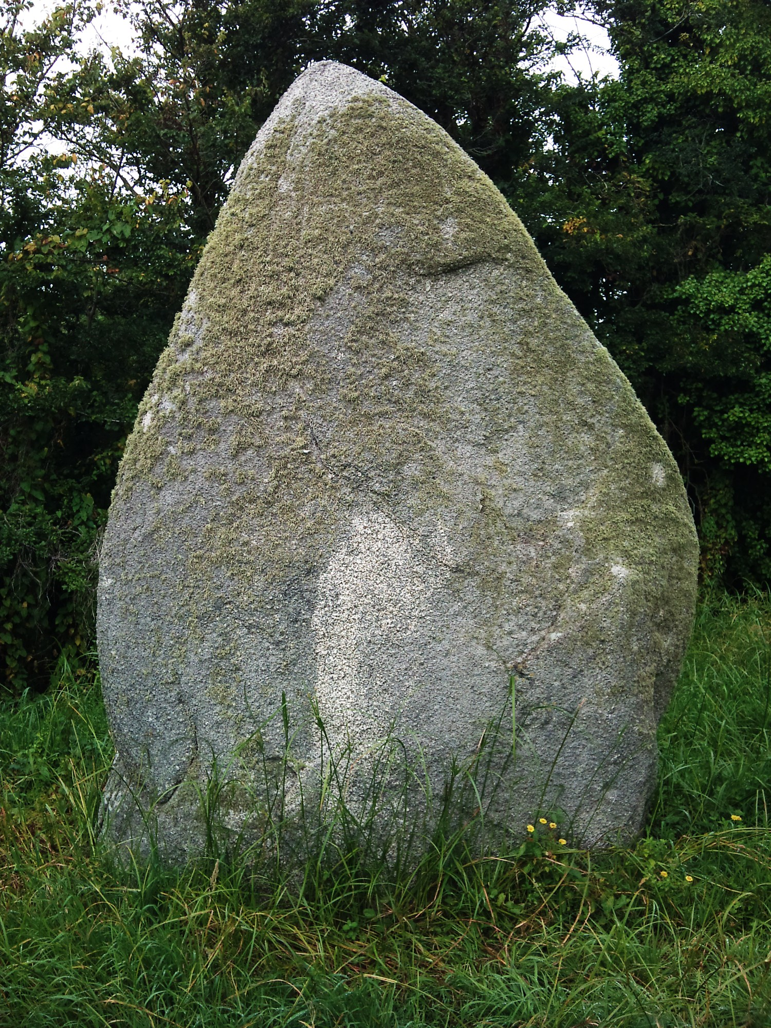 Menhir of Lanvar, at the Guilvinec (France-29730), granite.